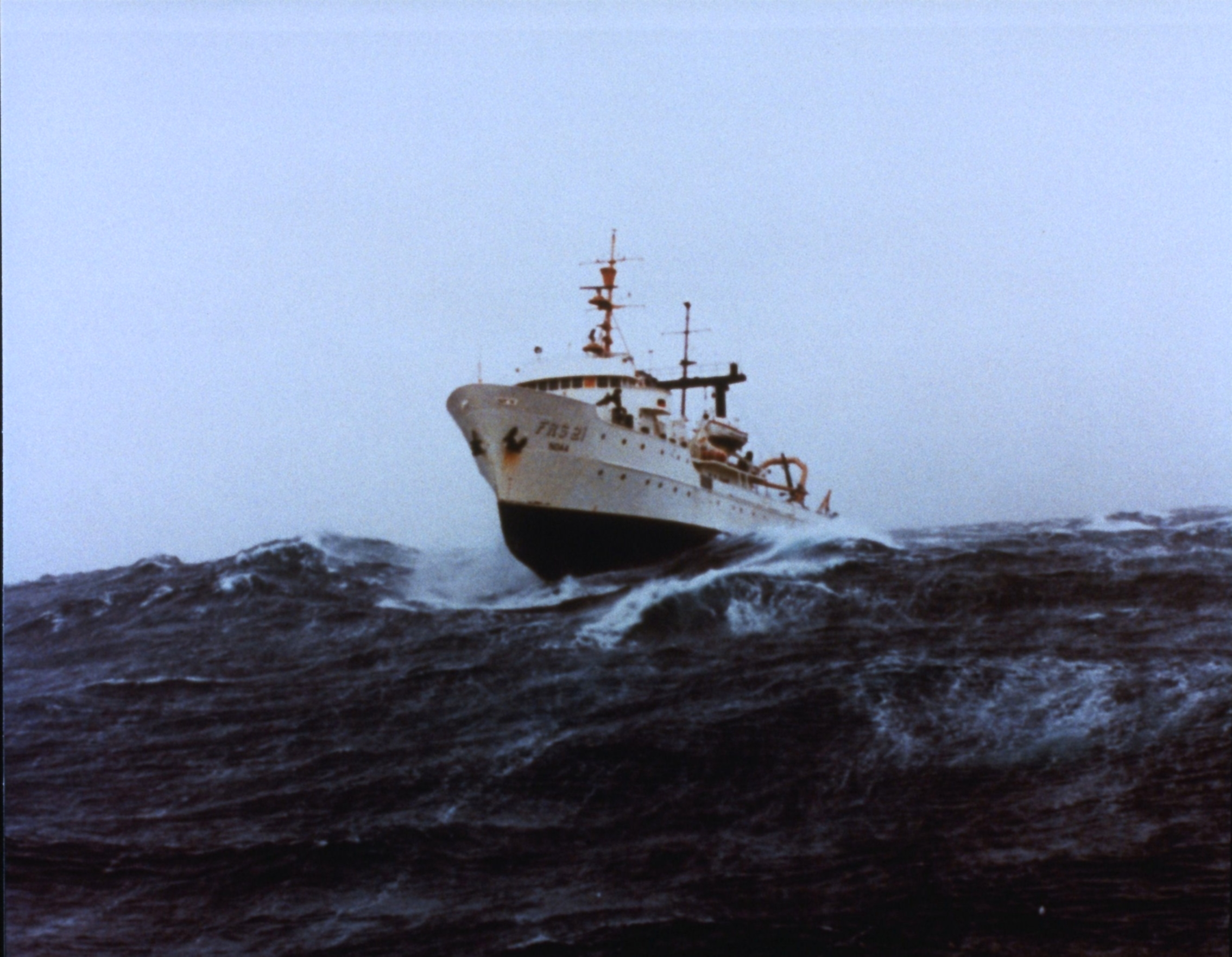 The National Oceanic and Atmospheric Administration fisheries and oceanographic research ship NOAAS Miller Freeman (R 223) approaches a disabled vessel to render assistance in the Bering Sea